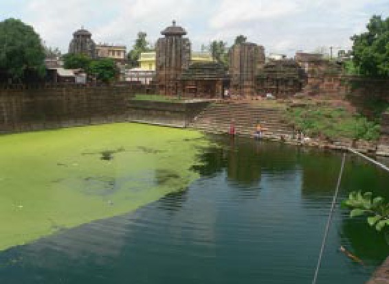 Pabanesvara Siva temple is situated at a distance of 100.00 metres east of Parasuramesvara temple on the left side of the road leading to Kedara-Gouri temples. The temple has a vimana with a renovated porch, facing towards east. The presiding deity is a Sivalingam within a circular yonipitha inside the sanctum. It is a living temple. The temple is surrounded by private residential buildings and market complex on three sides and the road on the south. The temple was rebuilt or renovated sometimes back as it appears from the second phase of building from above the pabhaga.